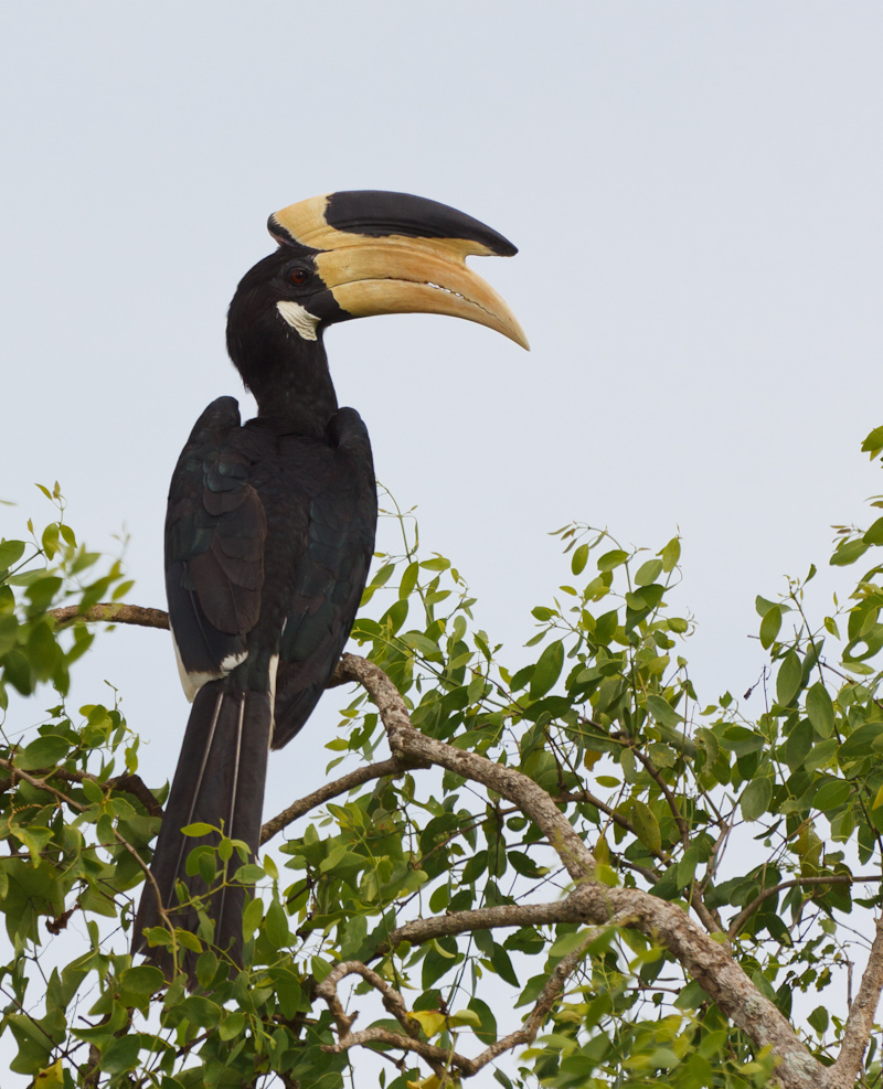 A Malabar Pied Hornbill at Yala National Park, Sri Lanka.